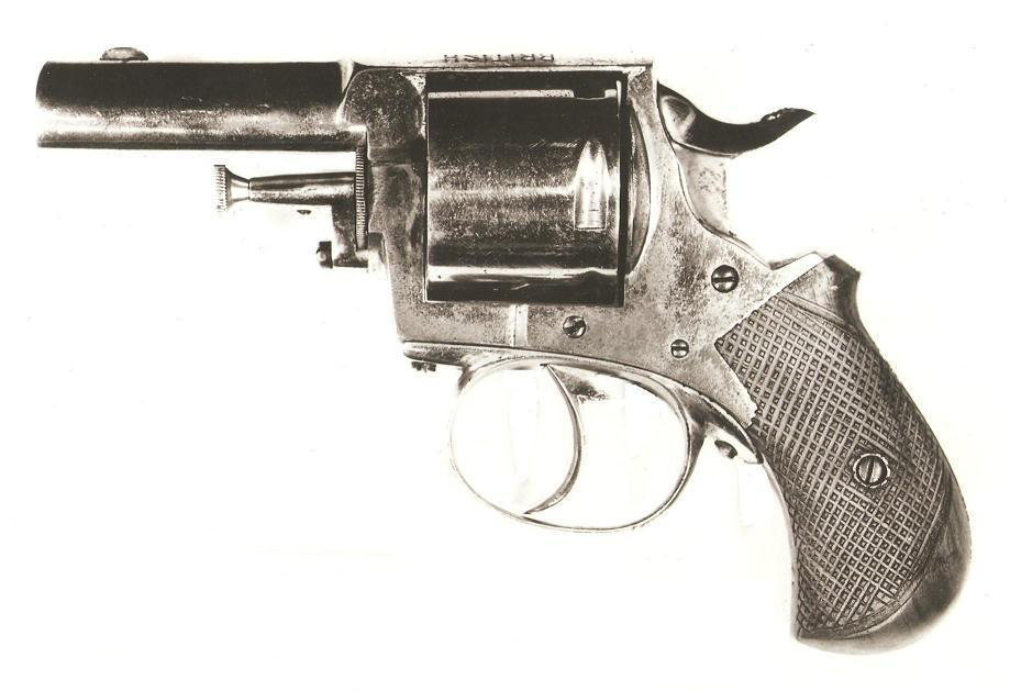 Photo of the British Bull Dog revolver used to assassinate President Garfield in 1881